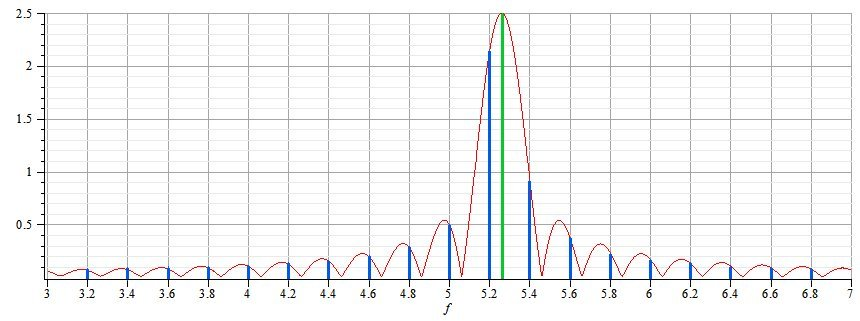 Effect of windowing on the FFT of a sine